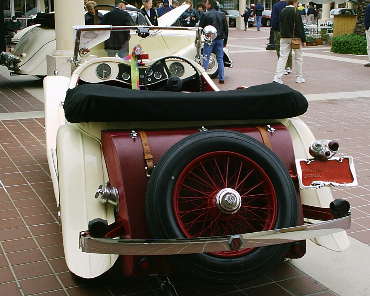 1935 SS 2 4-seater tourer 1935 MK II by SS Cars Ltd (rear view)